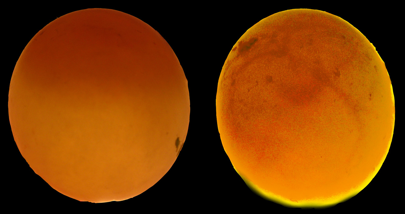 An infertile and fertile 6 day old parrot egg, lit from below by a light bulb (called candling.) Species is Amazona aestiva xanthopteryx.